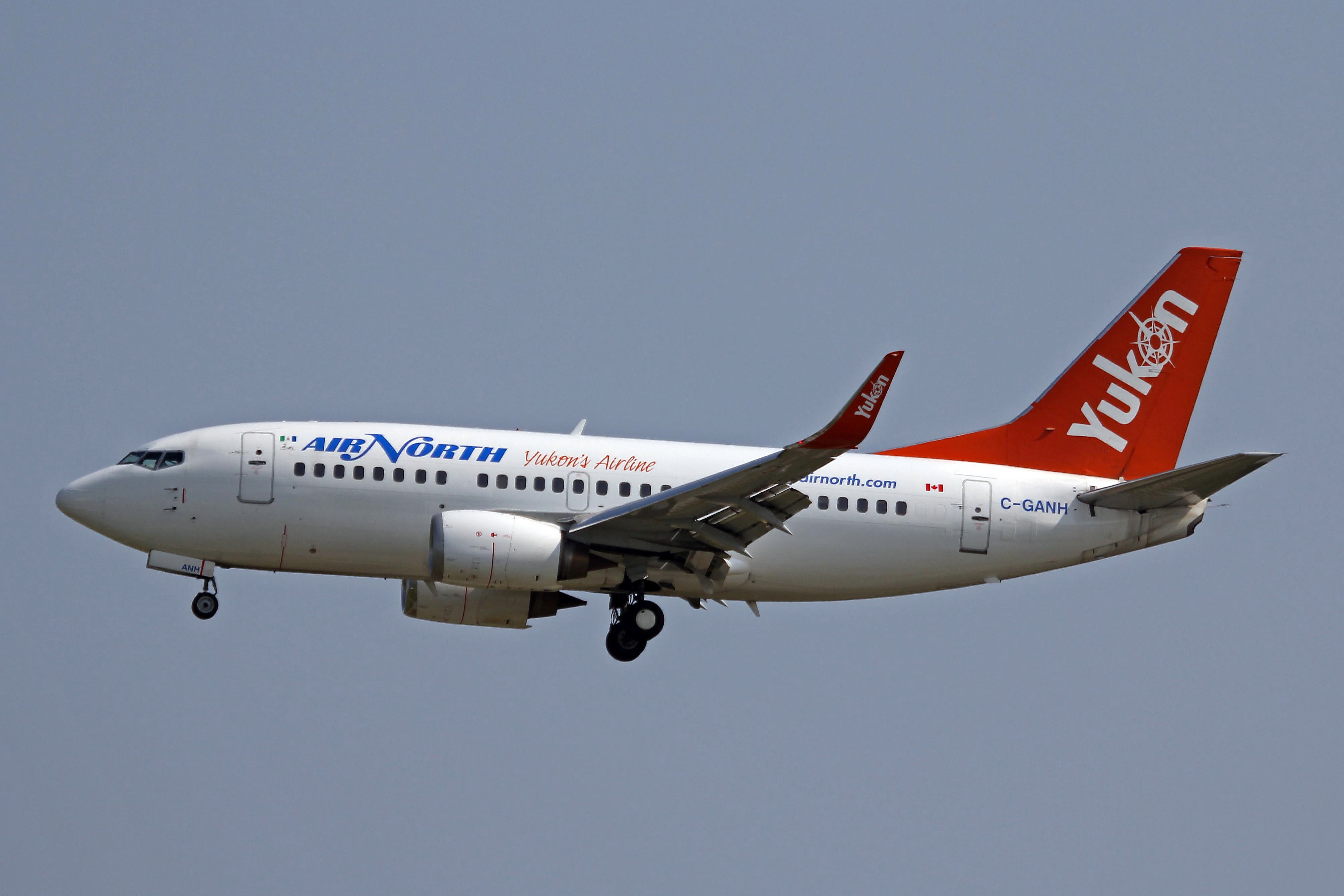 A picture of an airplane (name of it is on the file name).